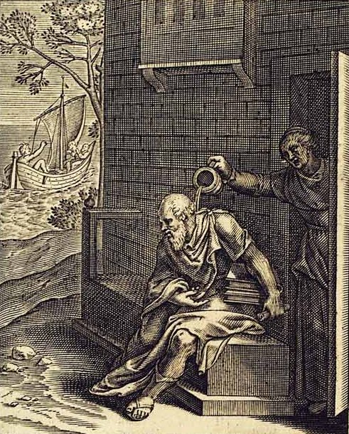 Xanthippe empties the chamber-pot over the head of Socrates. In the background a man is bullying an elderly couple in a sailing-ship. From Emblemata Horatiana, Imaginibus In Aes Incisis Atque Latino, Germanico, Gallico Et Belgico Carmine Illustrata by Otho Vaenius, 1607.